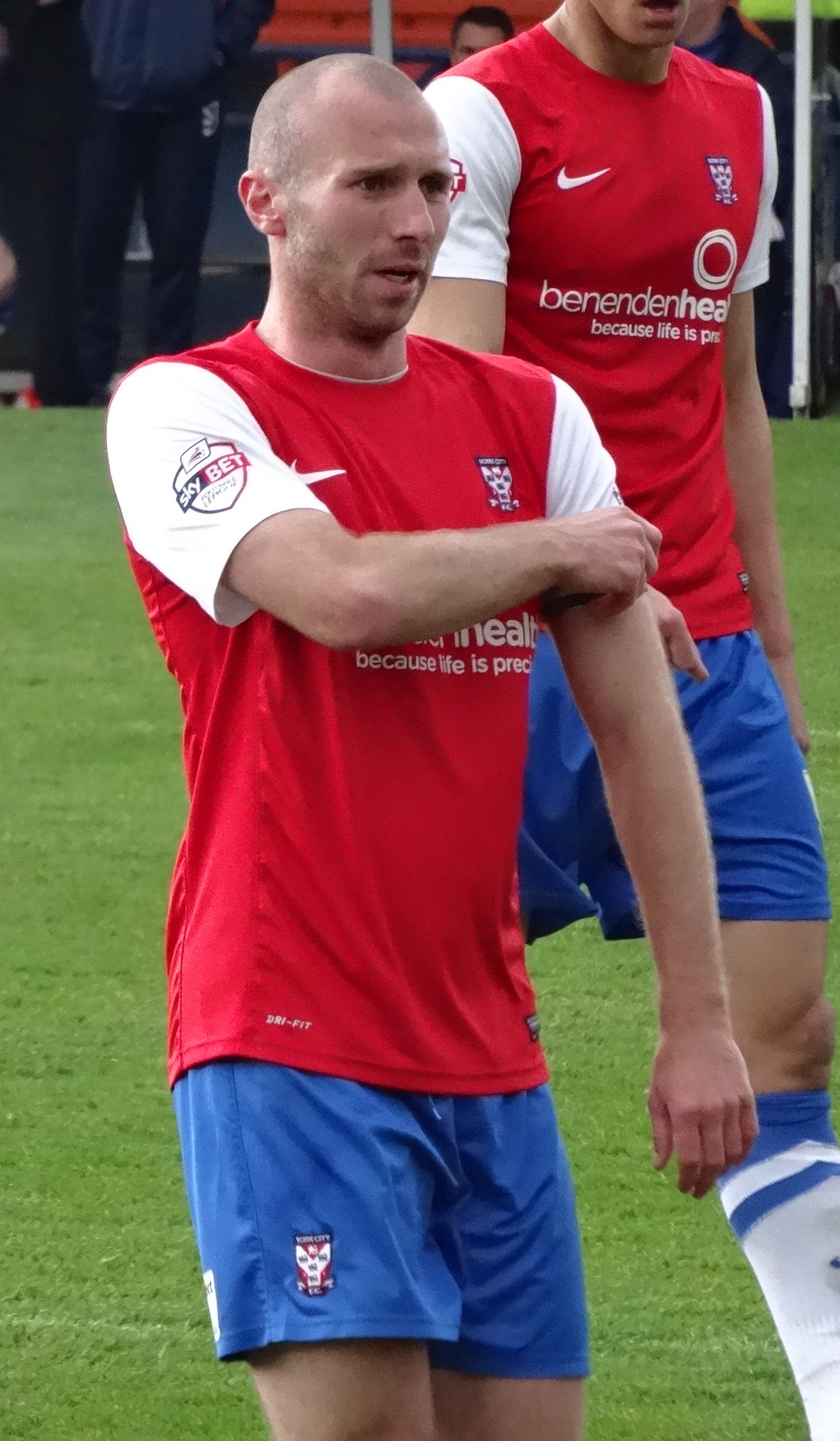 Russell Penn playing for York City against Newport County at Bootham Crescent, York on 26 April 2014